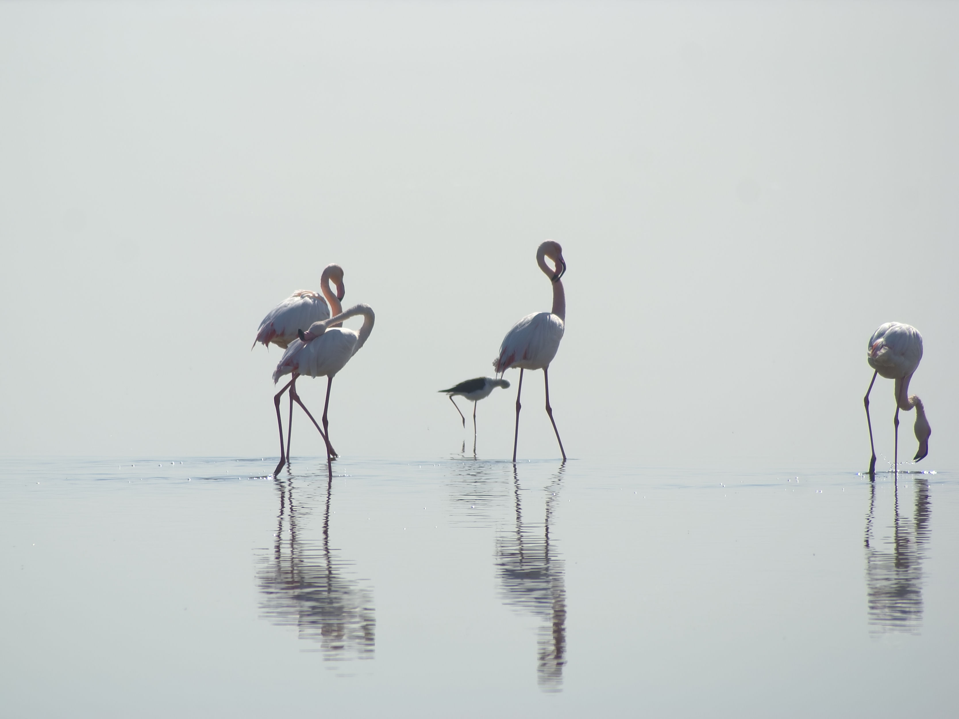 A group of Greater Flamingoes at Walvis Bay, Namibia